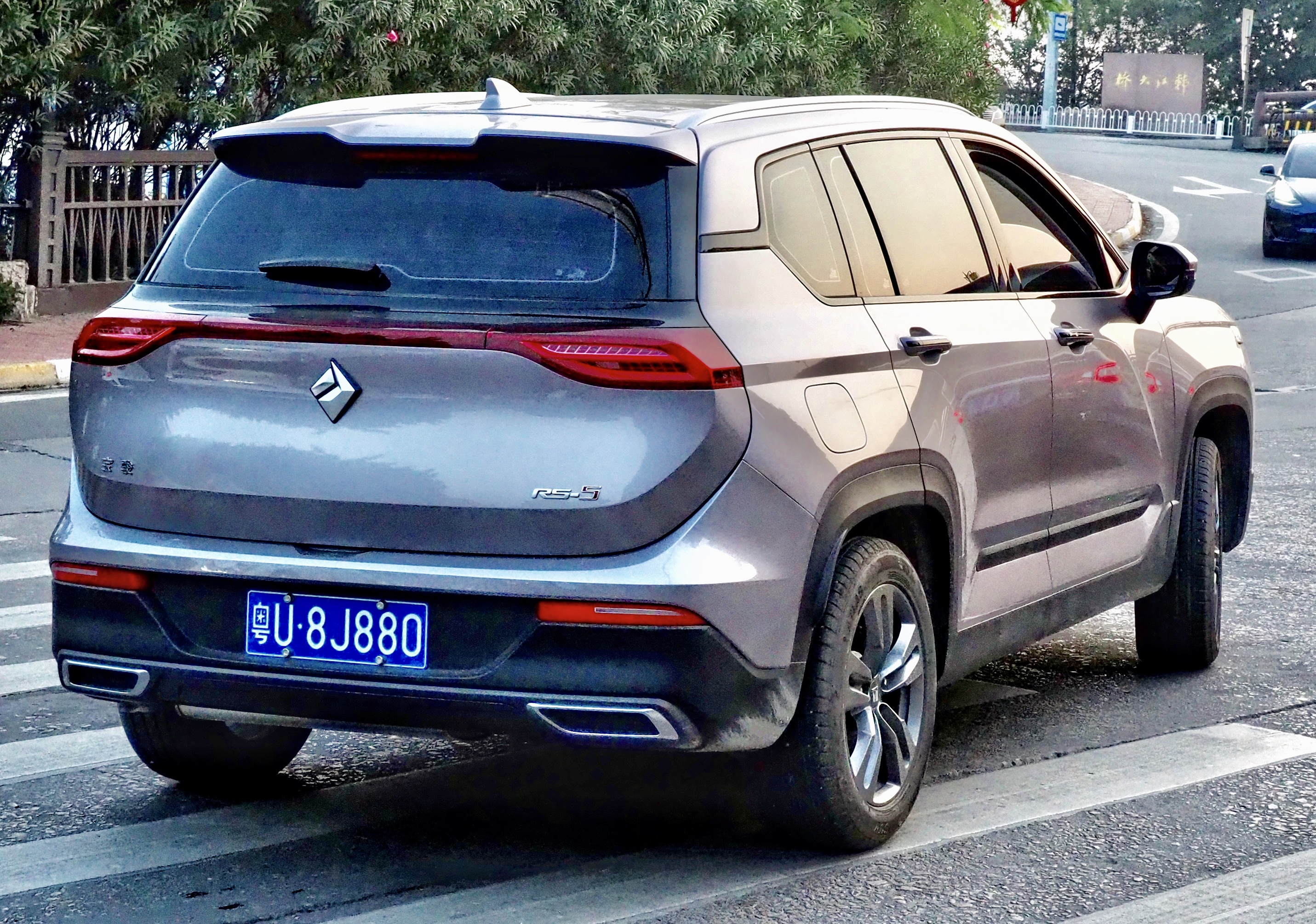 A 2018 Baojun RS-5 photographed in Chaozhou, Guangdong Province, China. 中文（中国大陆）: 一辆2018年的宝骏RS-5，拍摄于中国广东省潮州市。